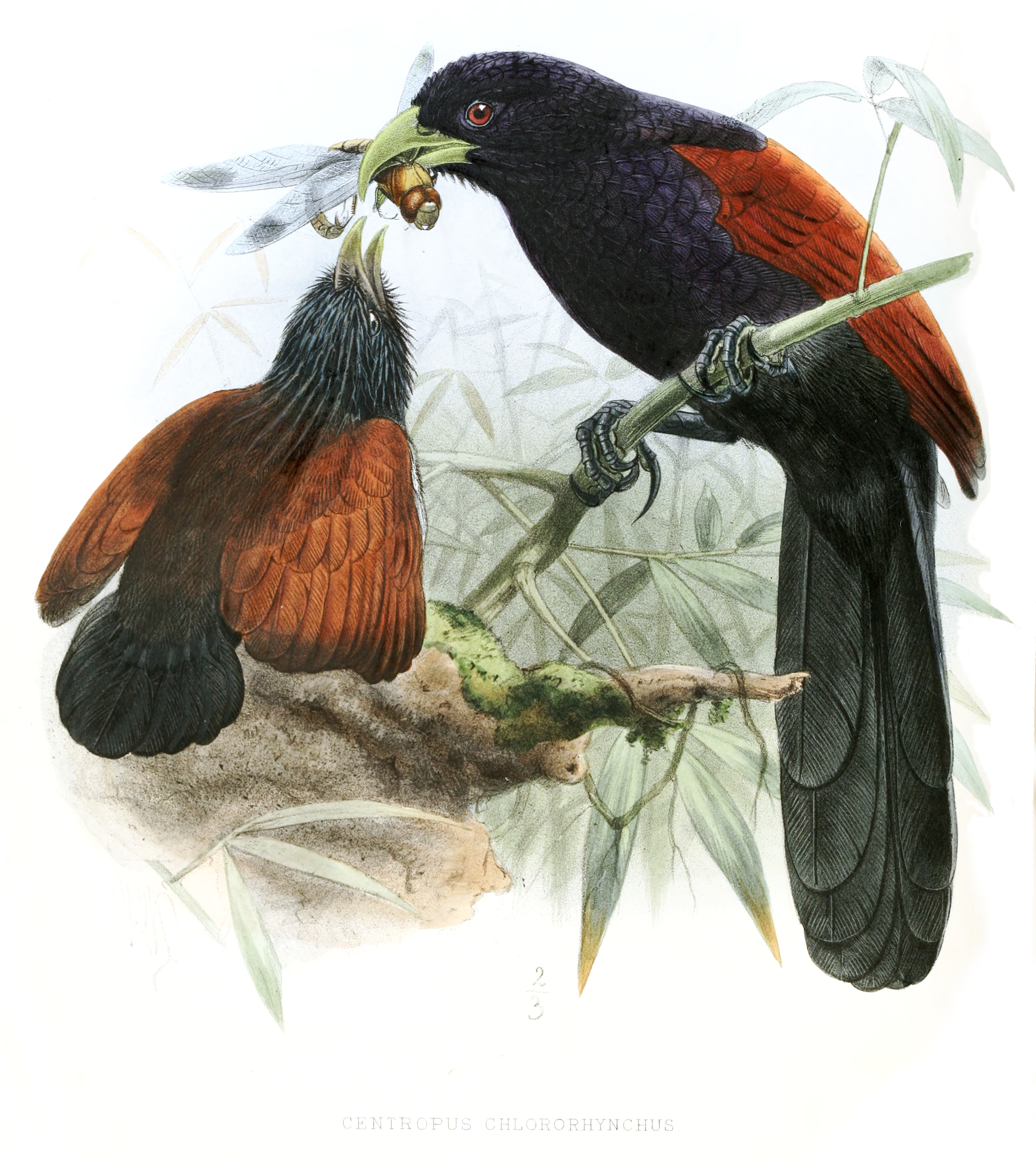 Centropus chlororhynchos